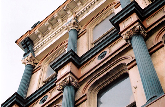 Taken by User:Trappy, 2005. This is a close-up of a building on Ontario Street, St. Catharines, Ontario. I personally took the photo with a Canon EOS 3000 analog SLR camera, I release it to the public.